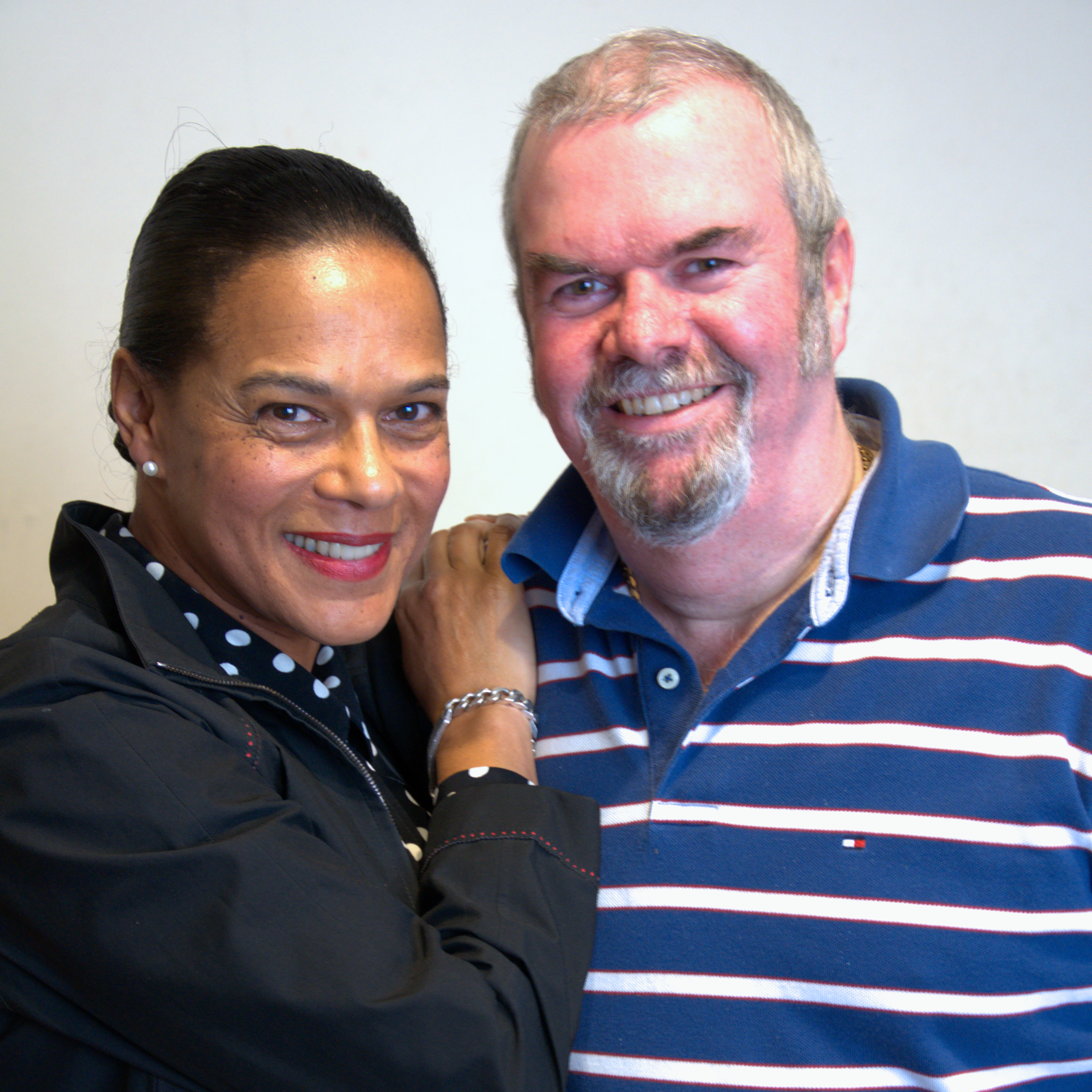 British journalist and presenter Garry Bushell with Pauline Black, lead singer of The Selecter, guesting on Radio Litopia's podcast, The Garry Bushell Show